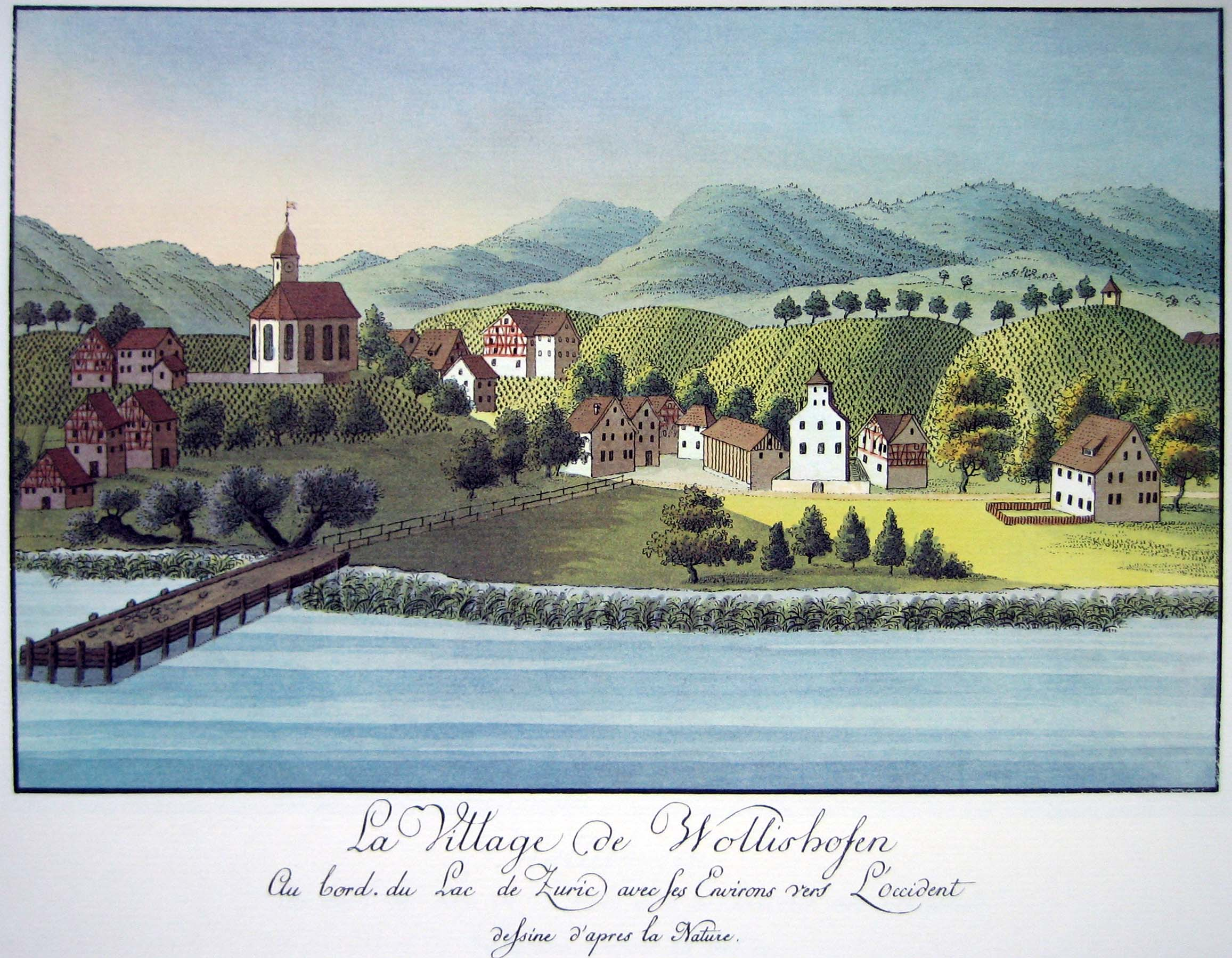 Wollishofen 1794